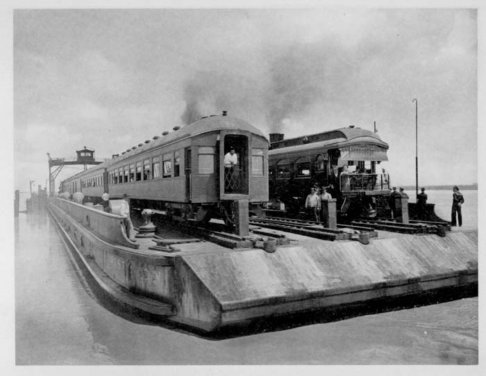 Southern Pacific Transfer across the Mississippi River, New Orleans, 1920s. Note: Trains crossed the river on ferries and barges until the completion of the Huey P. Long railroad bridge in the 1930s.